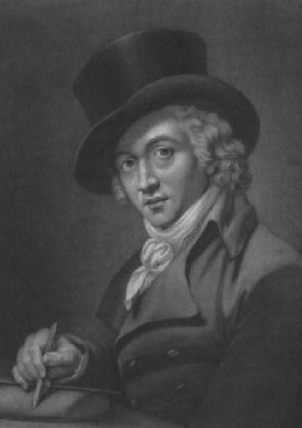 Johann Georg Huck (1759-1811), german painter and engraver (extract)